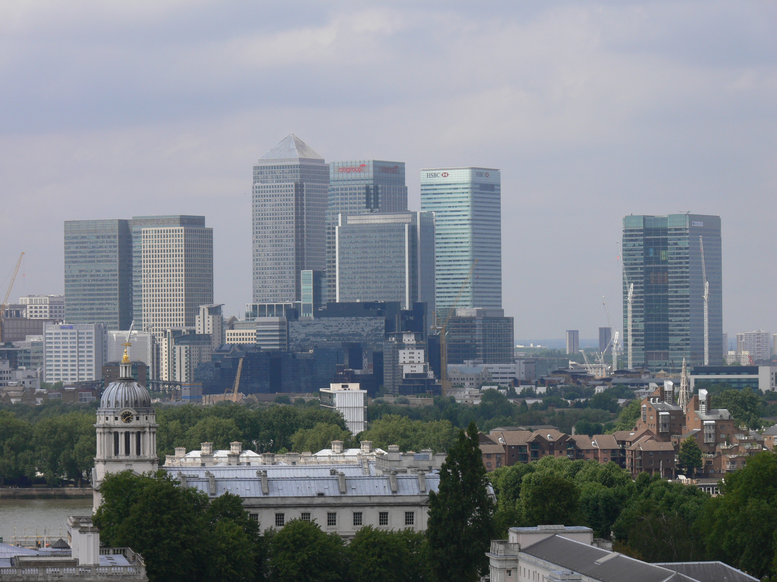 Canary Wharf seen from Royal Greenwich Observatory